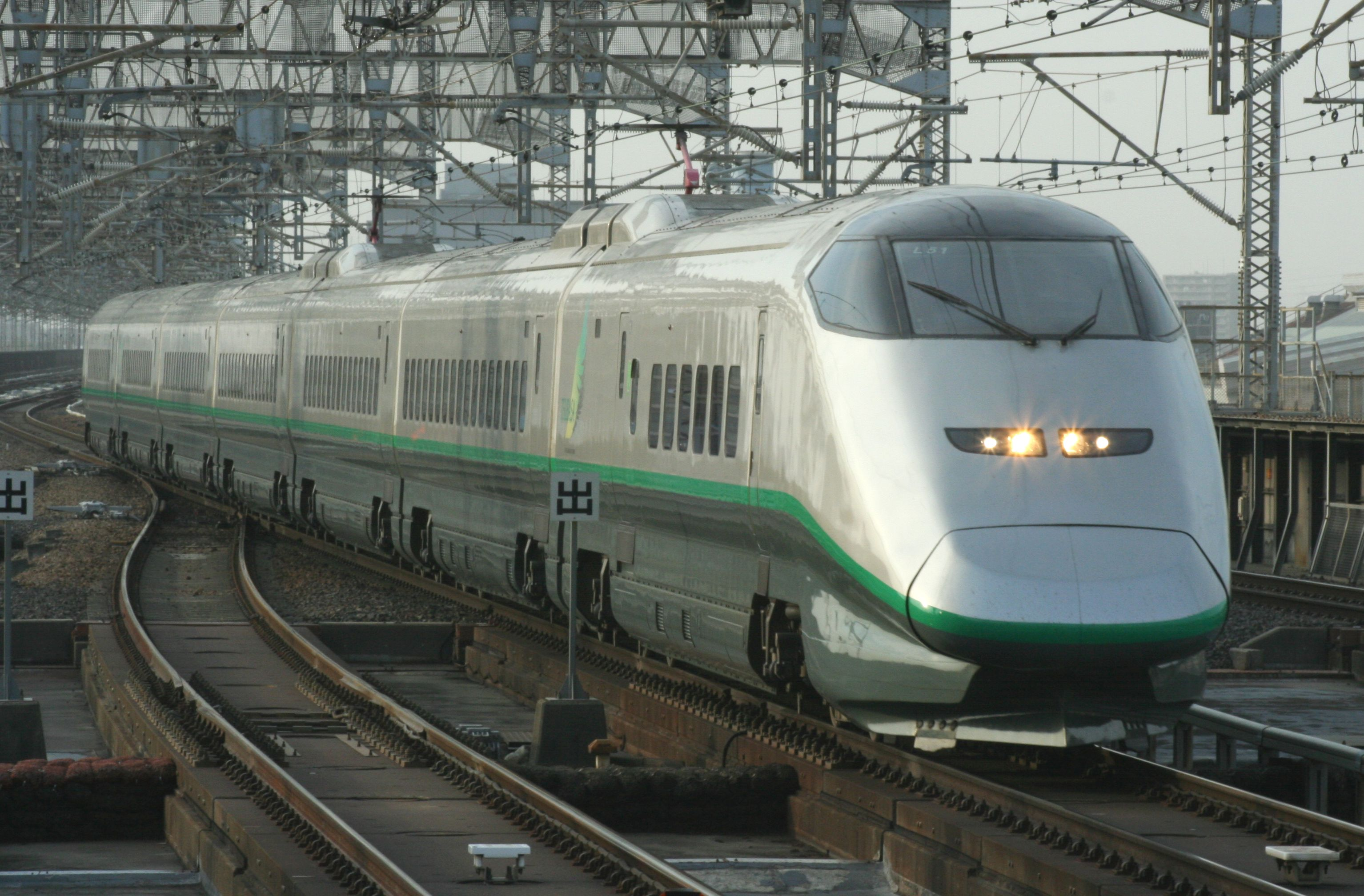 JR East E3-1000 series set L51 approaching Omiya Station on a Tsubasa shinkansen service